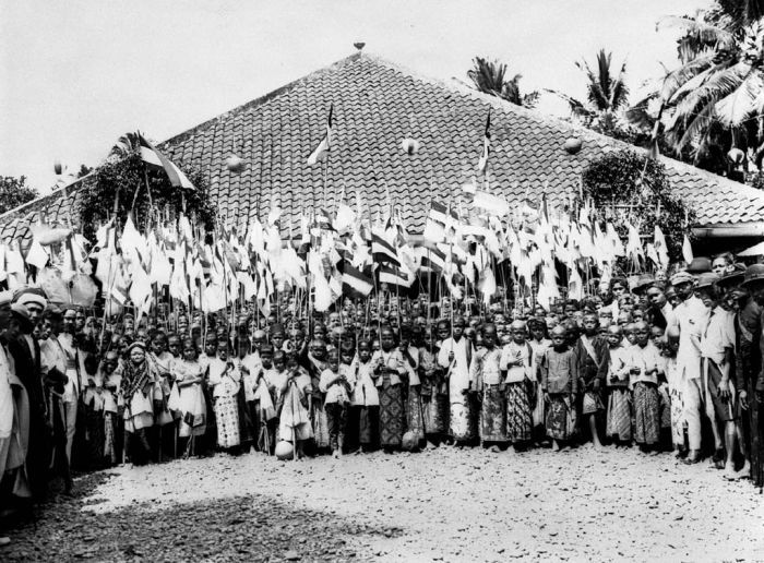 Foto's van de feesten in het Gewest Pekalongan ter herdenking van het zilveren Regeeringsjubileum van Hare Majesteit Wilhelmina, Koningin der Nederlanden